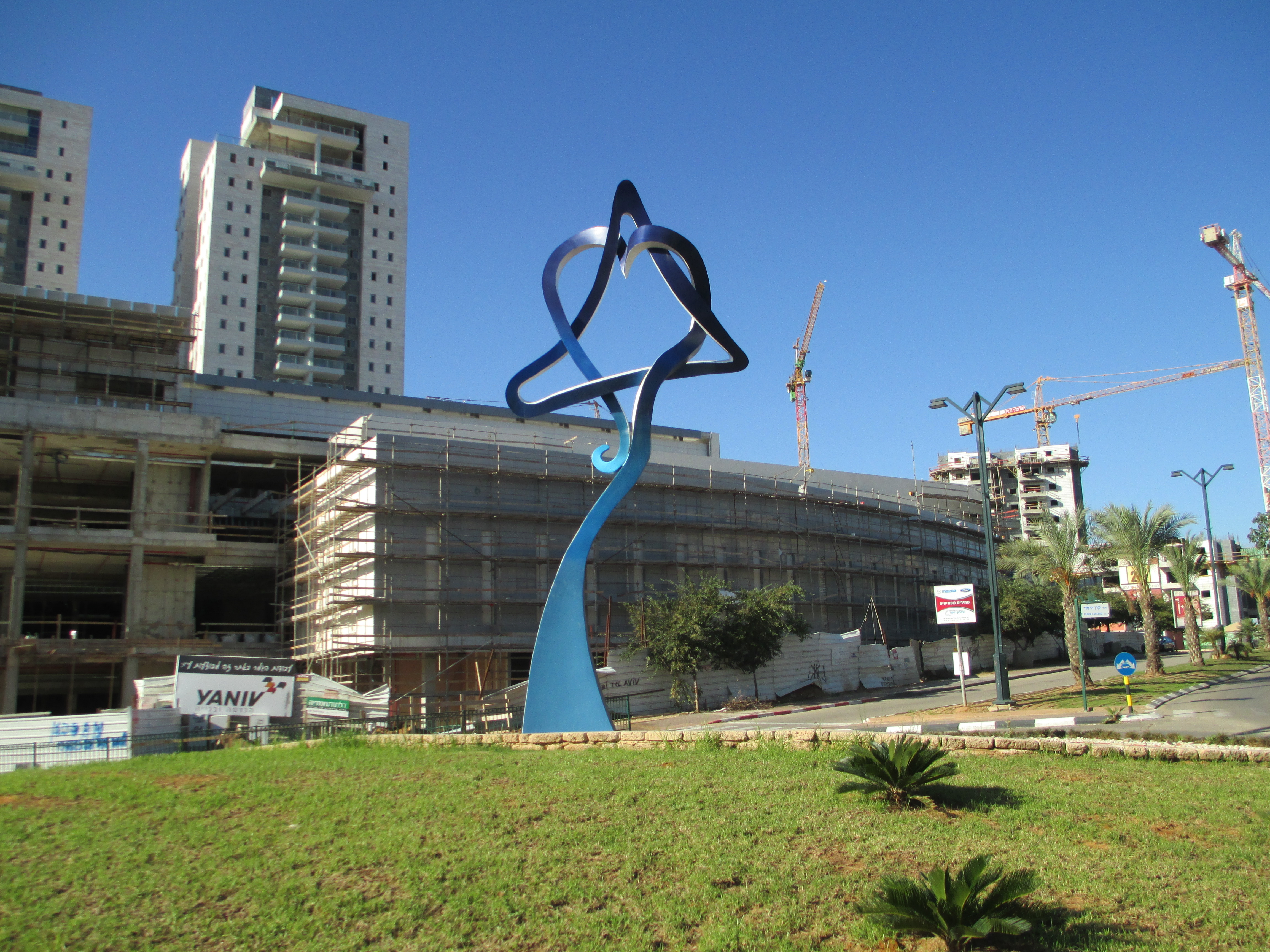 Chai Debi circle in Be'er Ya'akov